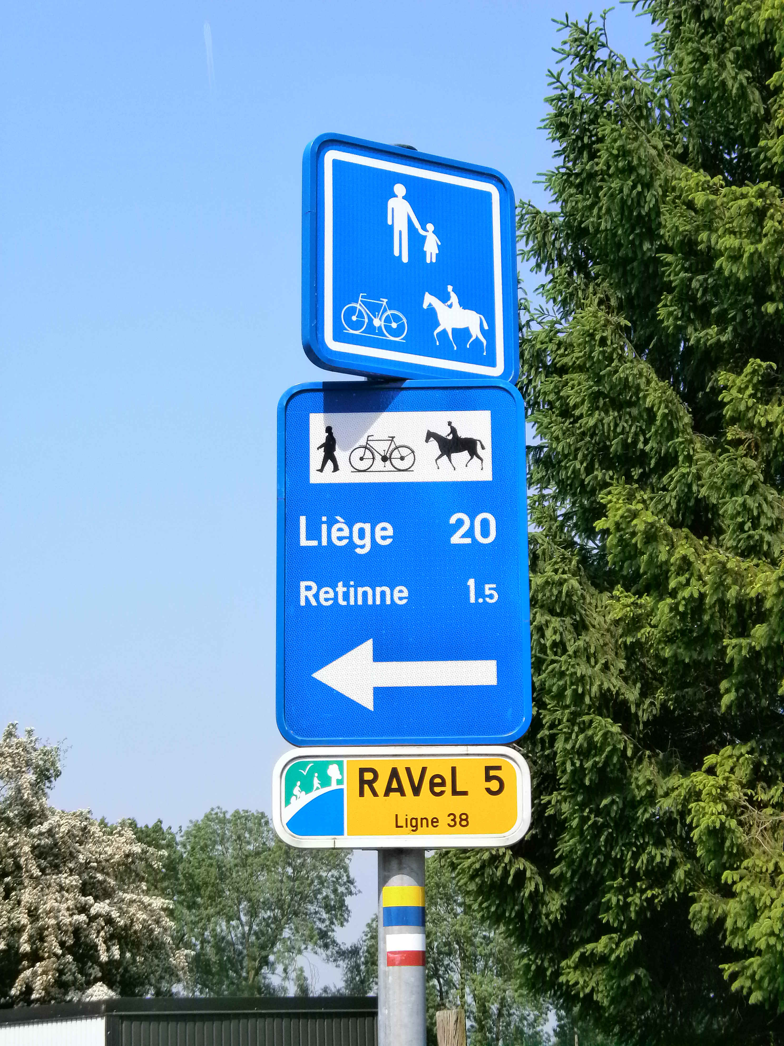 RAVeL5 sign